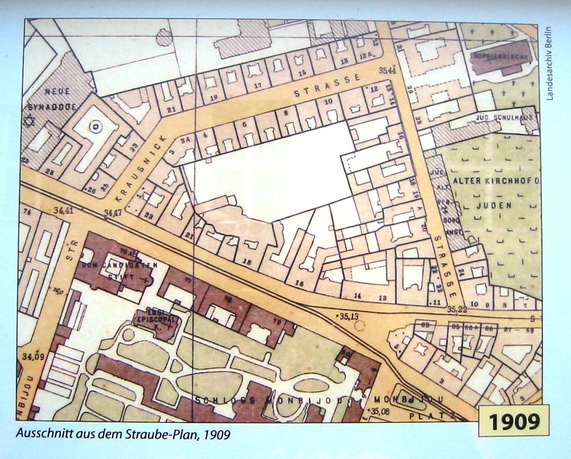 Straube-Plan 1804 zum Krausnickpark in Berlin-Mitte